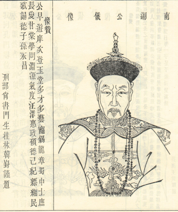 Xu Dingheng